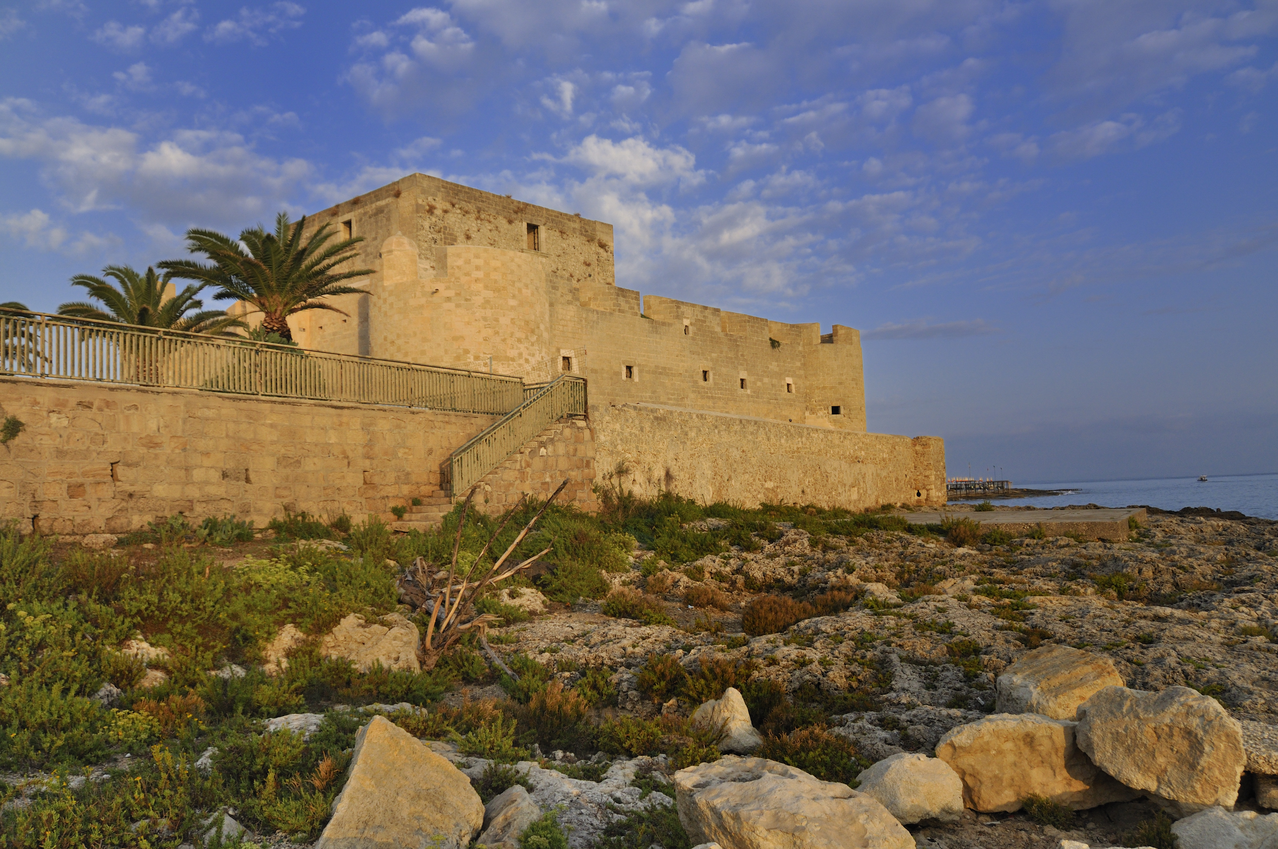 Brucoli, Sicily